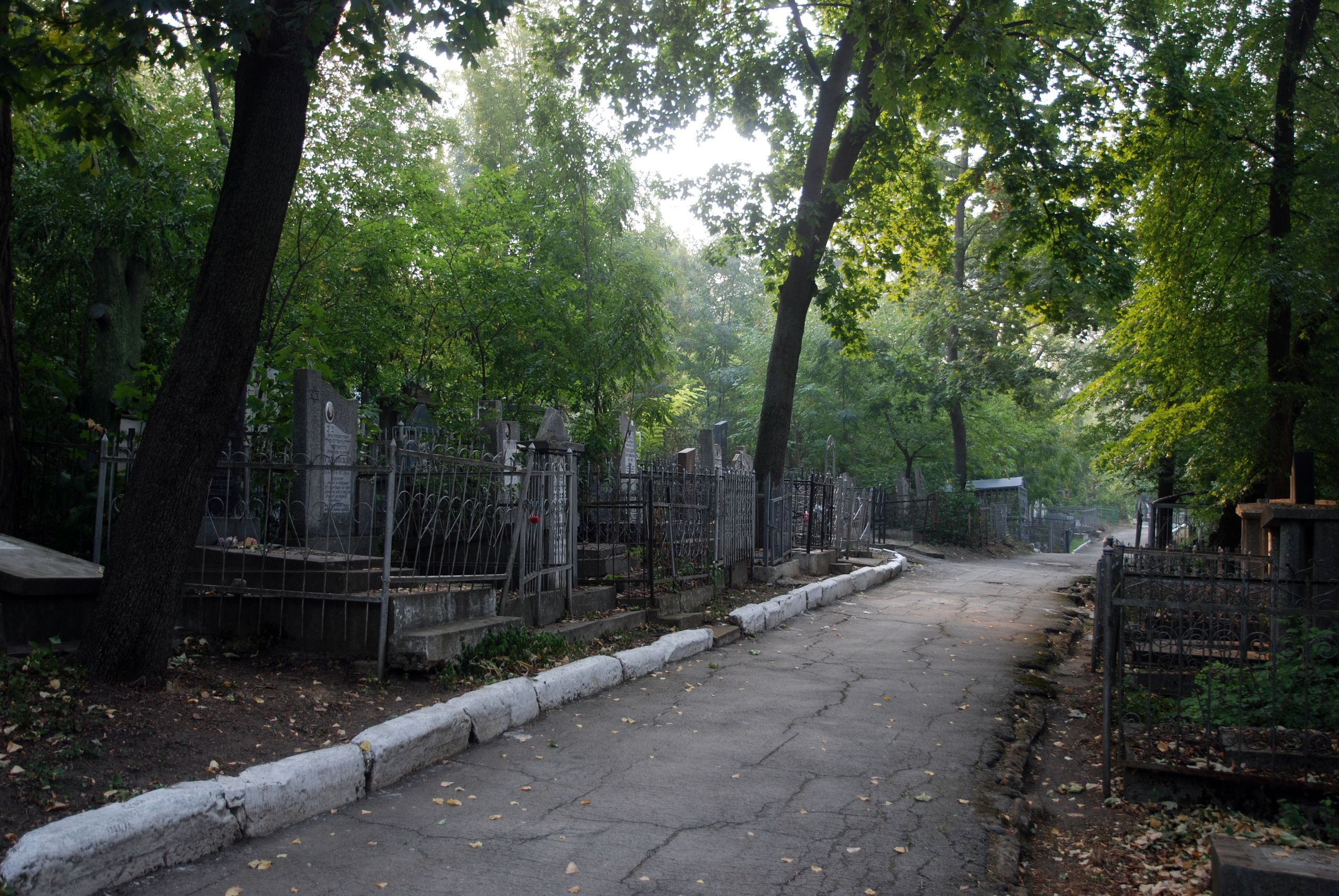 Orhei, Jewish cemetery